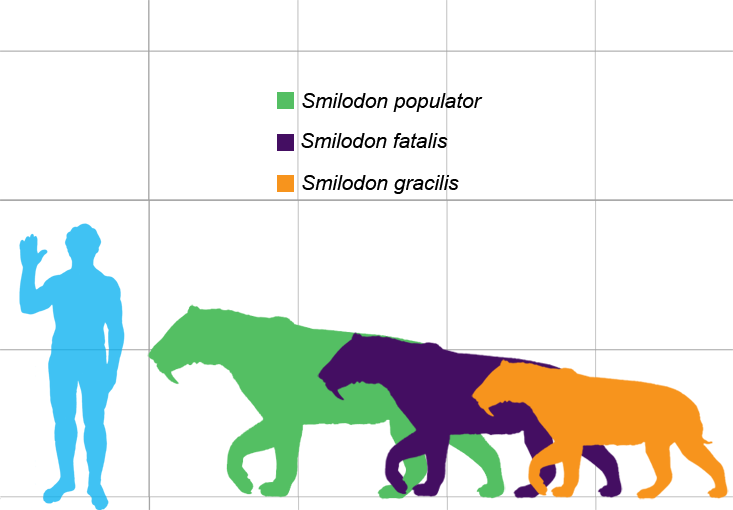 Size comparison of Smilodon populator (green), S. fatalis (purple), and S. gracilis (orange) with modern human for scale. Each grid segment = 1 square meter.